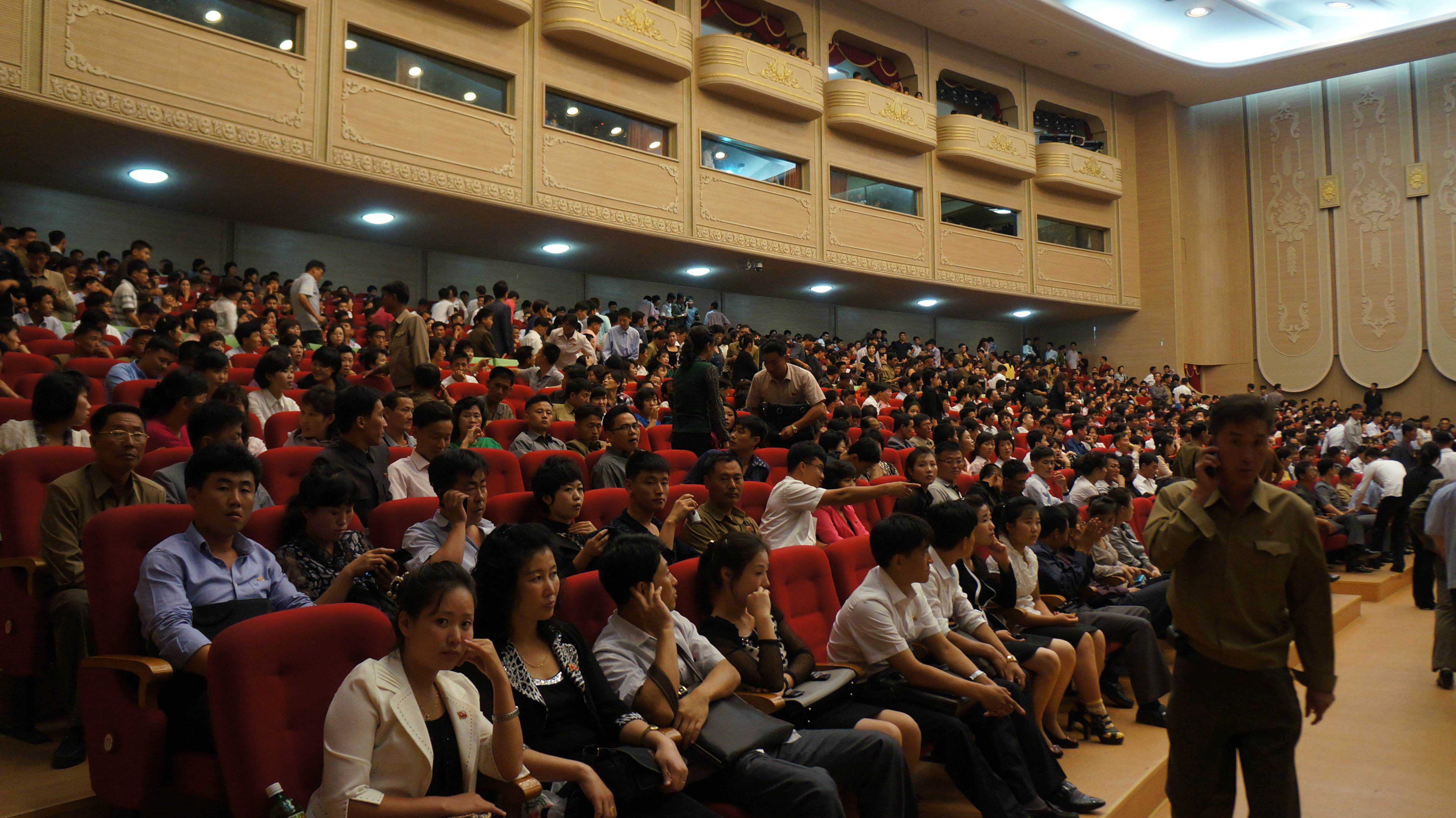 Ponghwa Theater